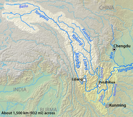 Map of the Jinsha River drainage basin in southwestern China